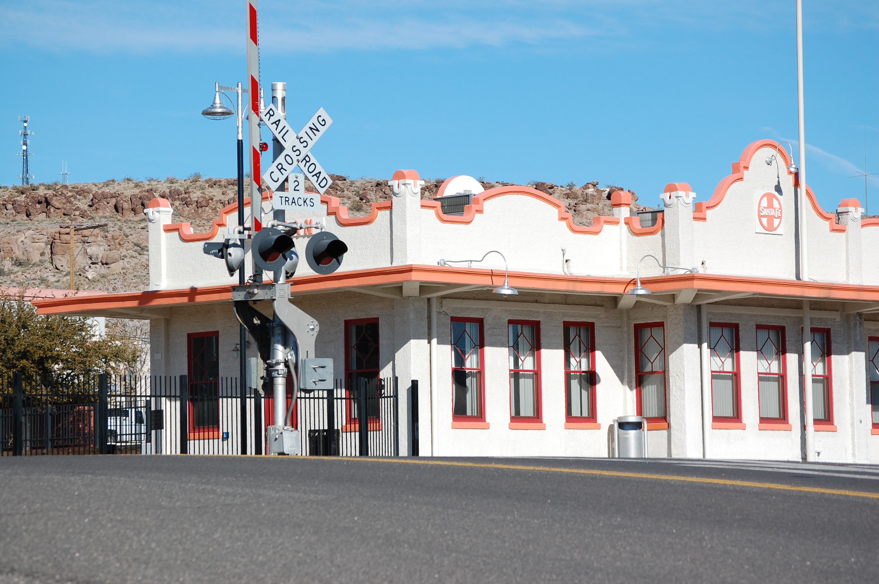 ATSF Train station, built in 1907, in downtown Kingman, Arizona. Constructed in the Mission Revival Style, the building completed a renovation in 2010, and is currently used to serve Amtrak customers on the Amtrak Southwest Chief route. The train typically can be seen at the station at 2-3 am daily. The station lies alongside the Southern Transcon route of the BNSF railway right-of-way, carrying trains between Chicago and Los Angeles.